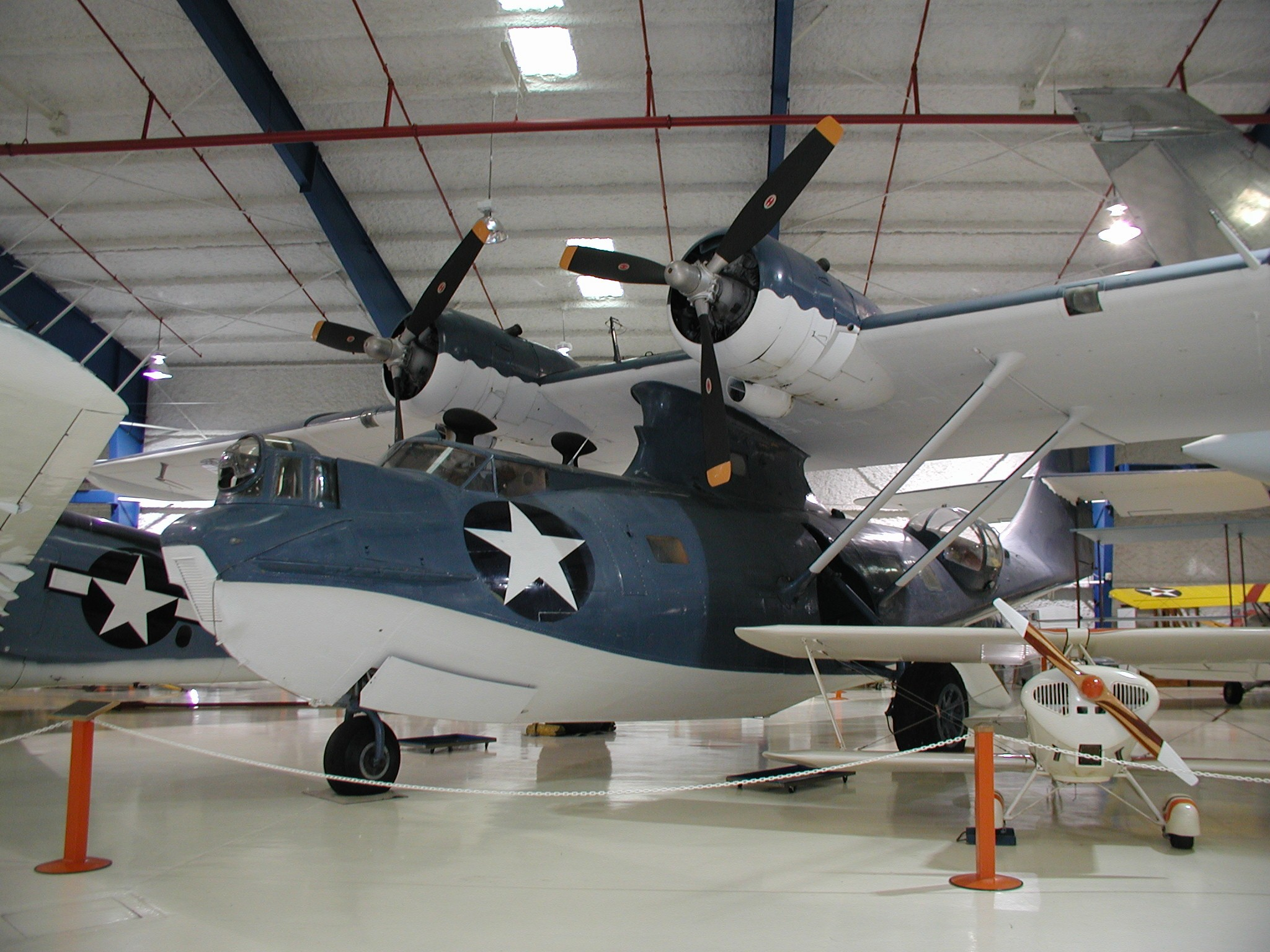 PBY Catalina No.(RCAF)9742 407 at Lone Star Flight Museum